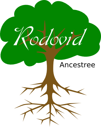 Rodovid logo.